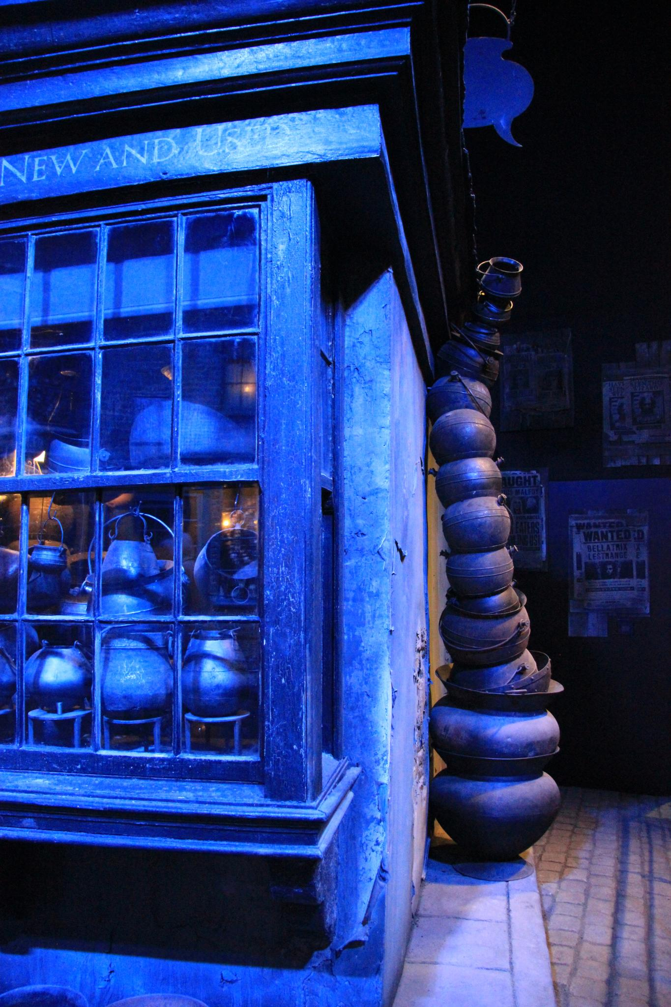 Warner Bros. Studio Tour London: The Making of Harry Potter.